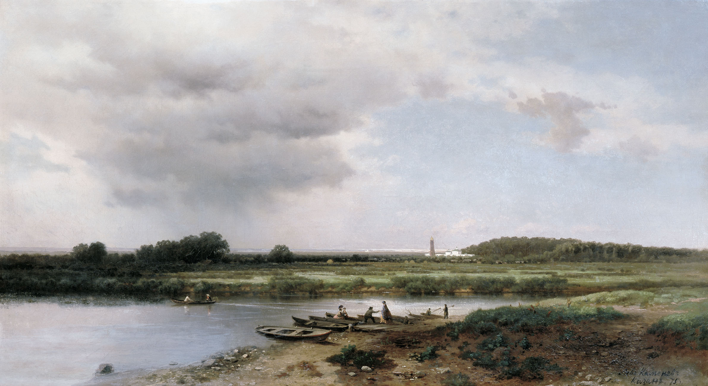 View on the Kazanka River by Lev Kamenev.